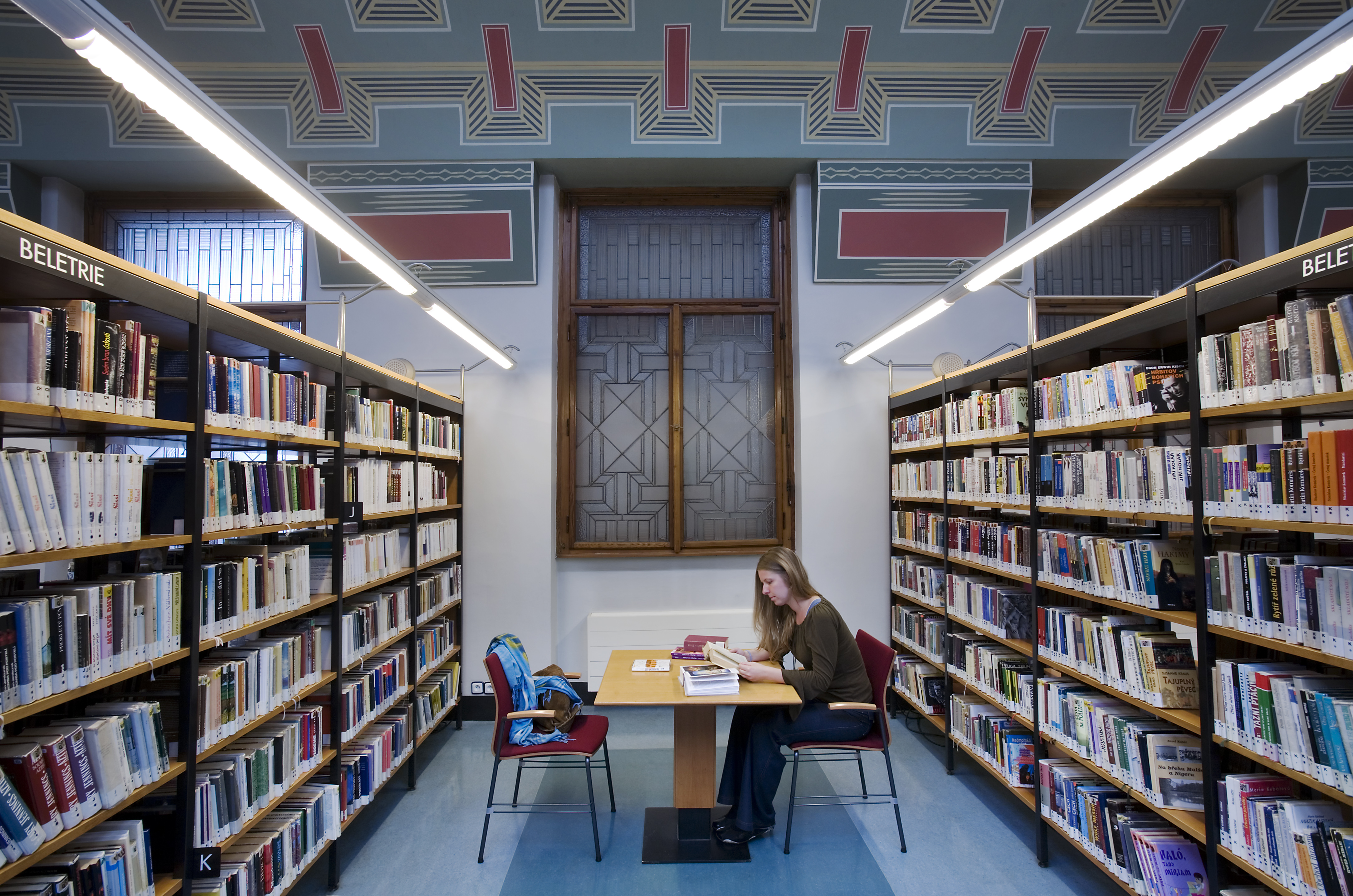 A municipal library, Prague